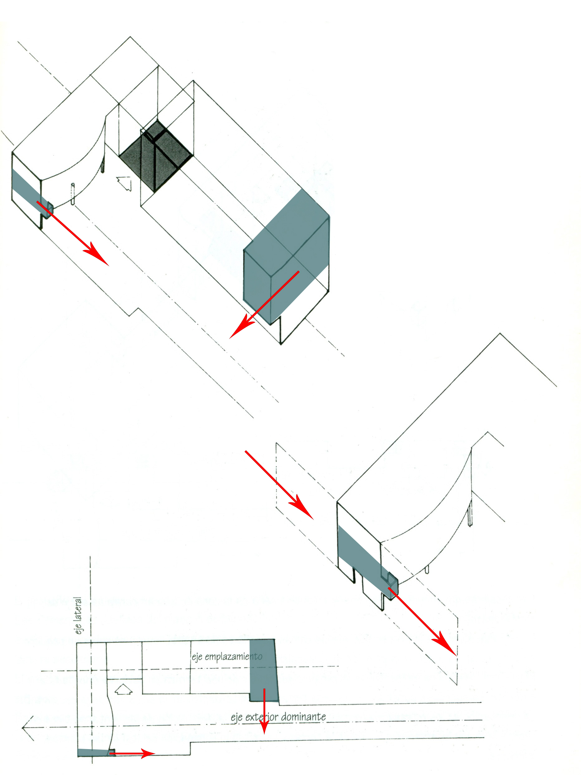 Limites